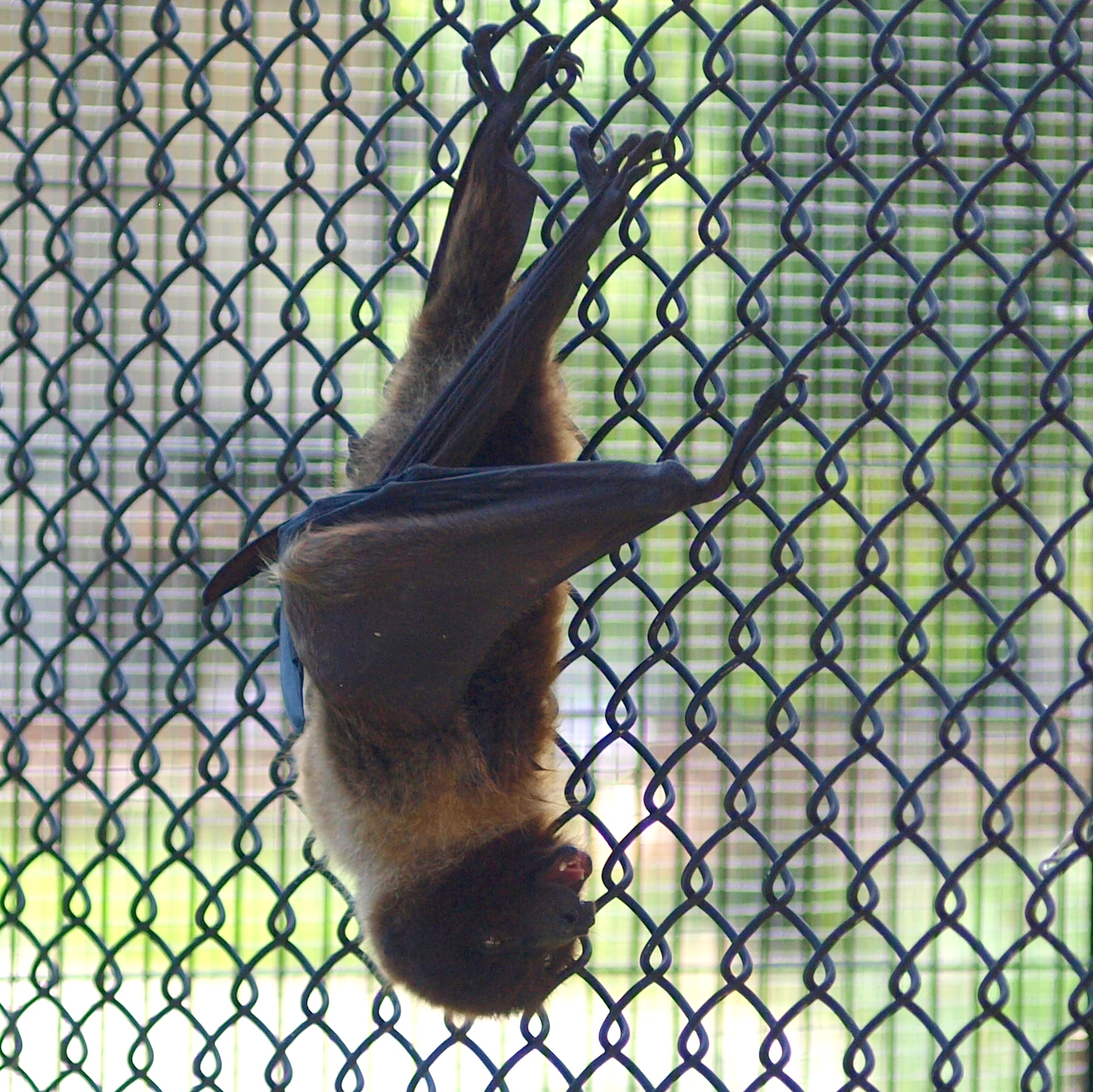 Orii's fruit bat, at the Neo Park Okinawa, Japan